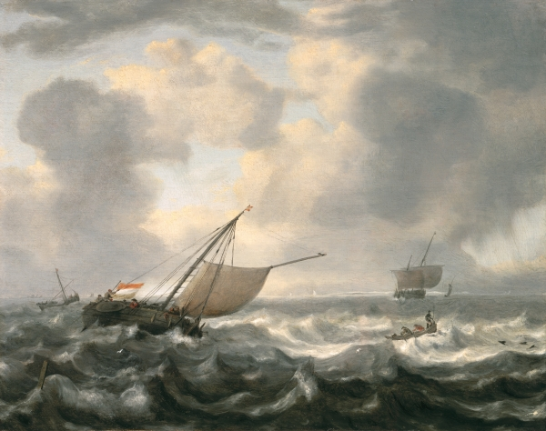 Ships on a Choppy Sea